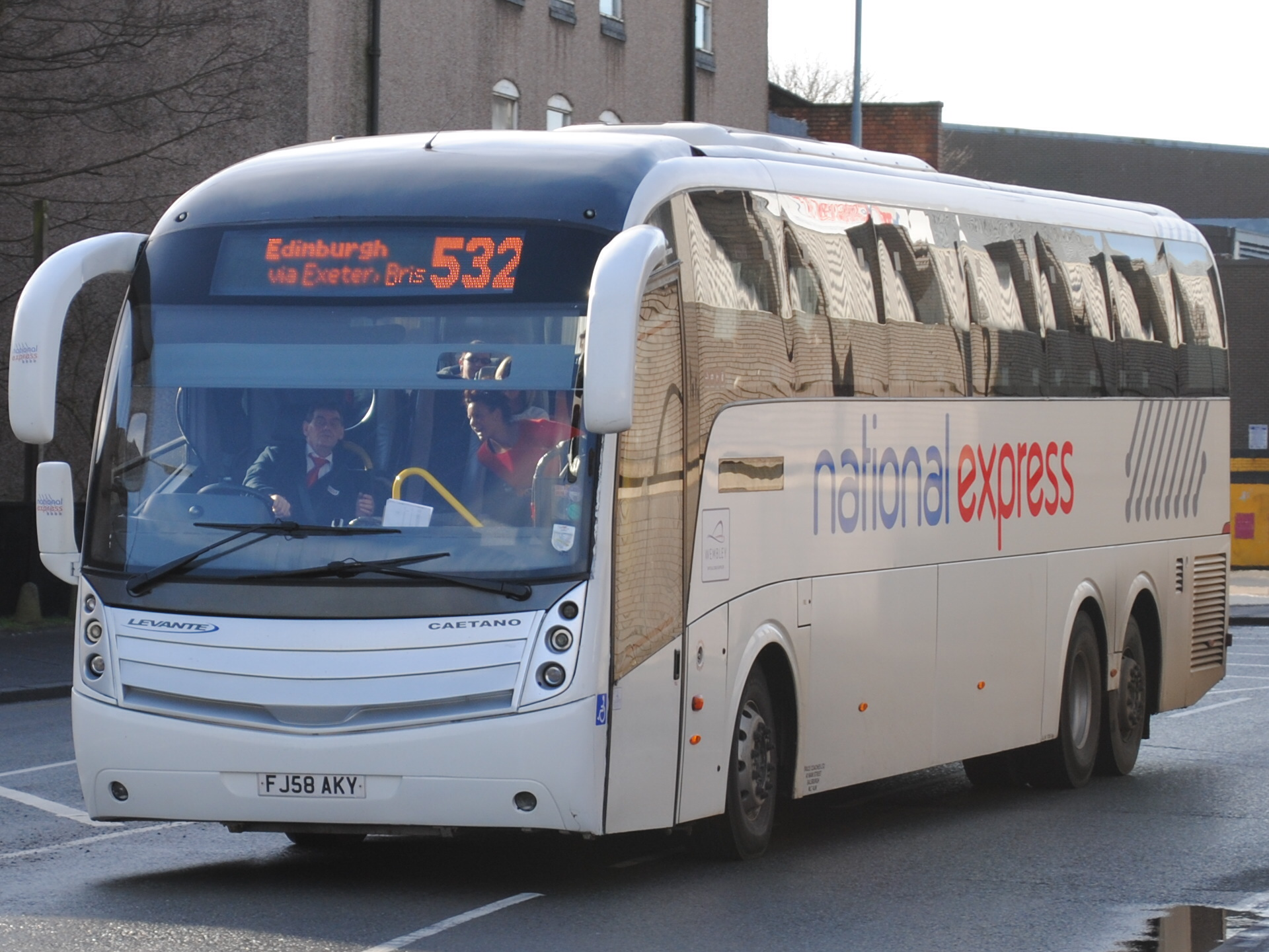 Scania K340 EB6 Caetano Levante. National Express 532 Plymouth - Edinburgh route seen here outside Digbeth Coach Station, Birmingham